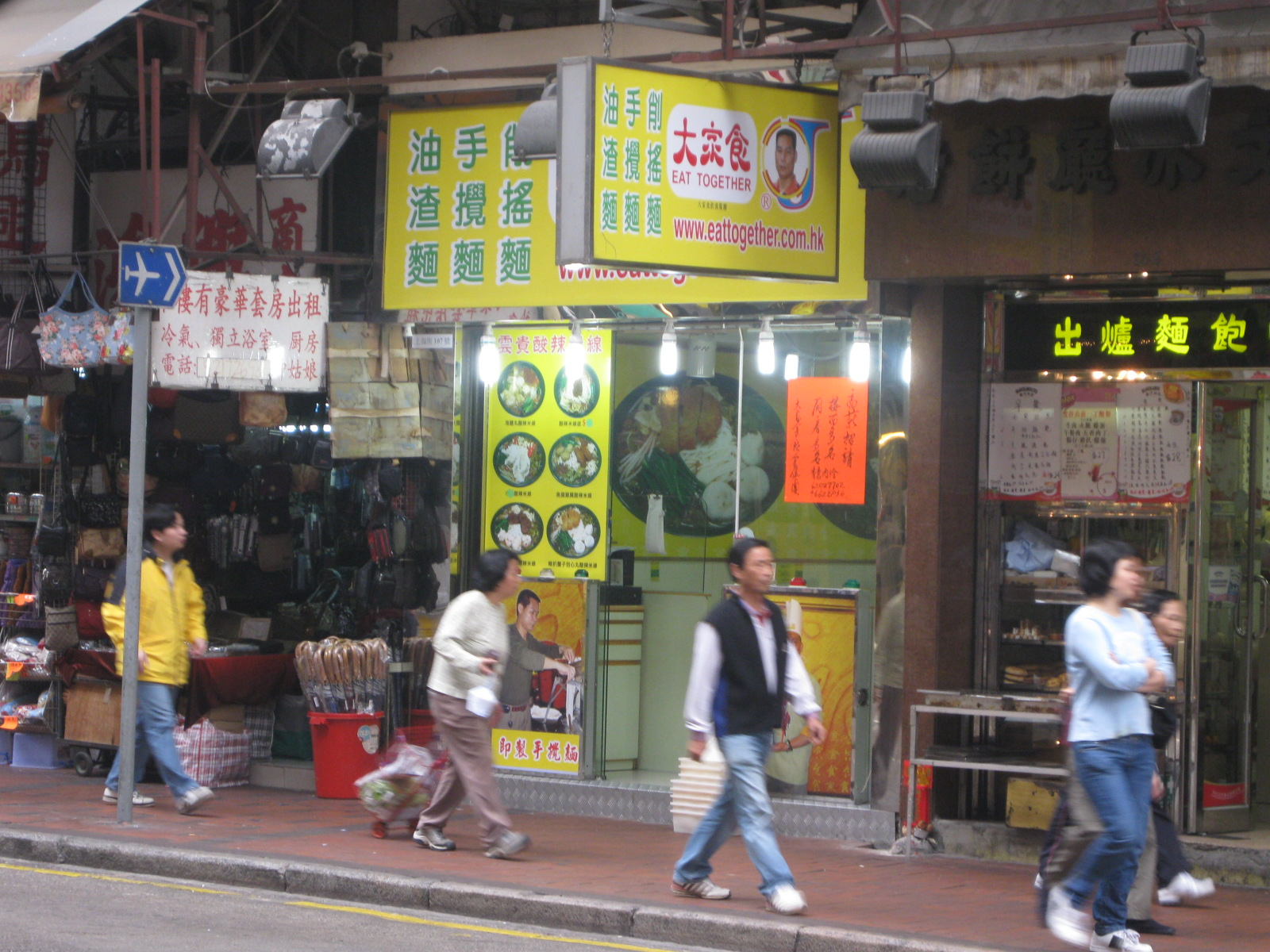 Eat Together Jordan Shanghai Street branch